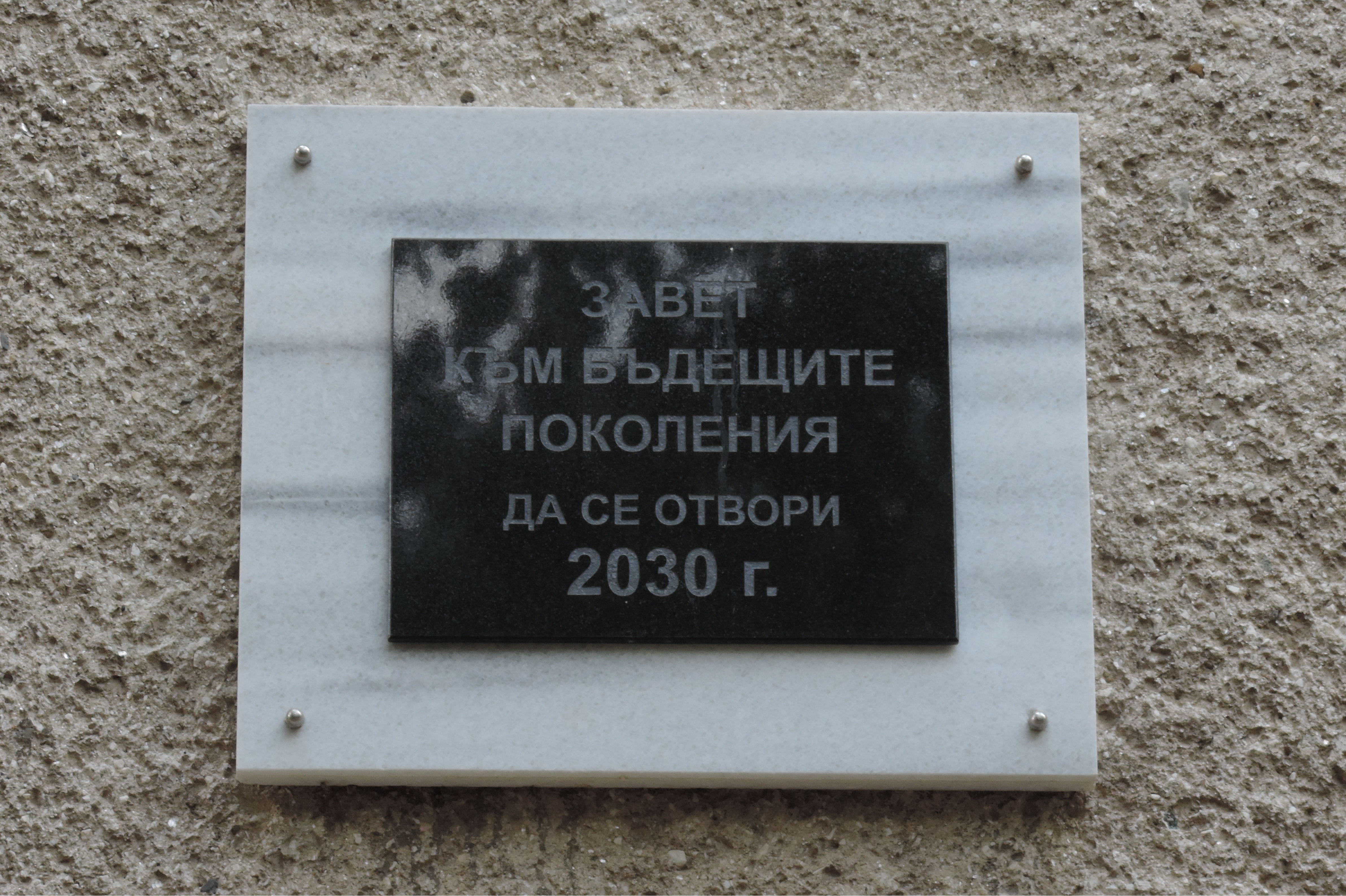 Message to future generations, built in the wall of the "Vasil Levski" Elementary School in village Balgarovo, Burgas Province, Bulgaria